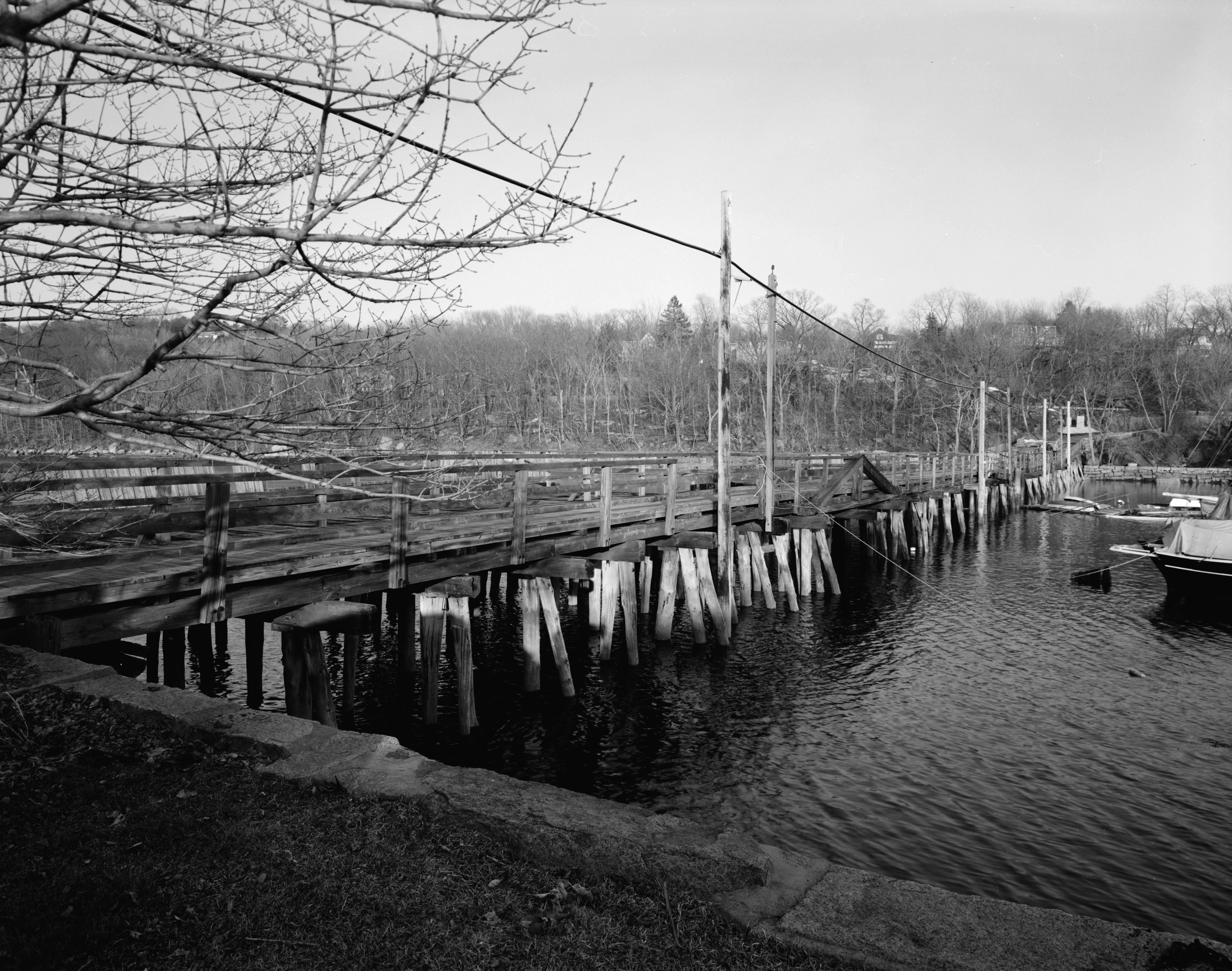 Annisquam Bridge, Spanning Lobster Cove between Washington & River S, Gloucester (Essex County, Massachusetts)